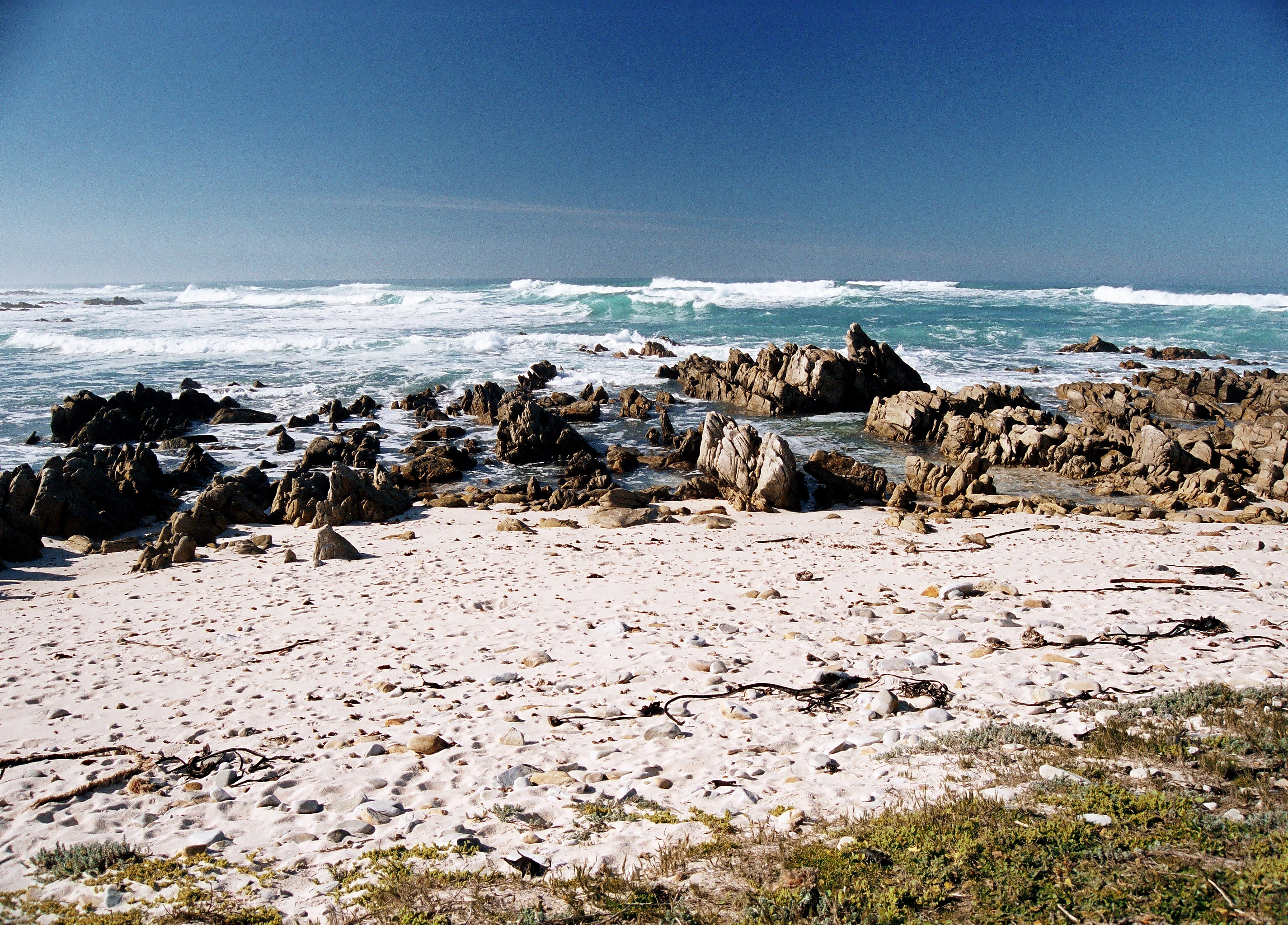 Rocks at Cape Agulhas, the southernmost point in Africa. South Africa.